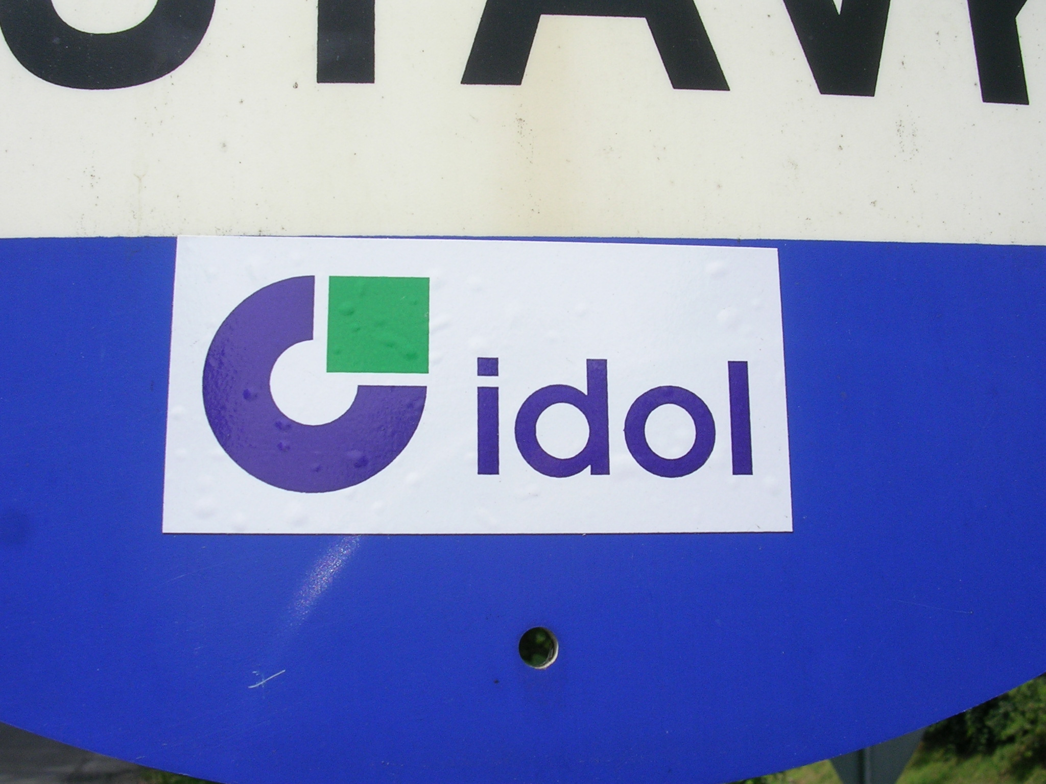 Turnov, Liberec Region, the Czech Republic. A bus stop near Hlavatice Tower.